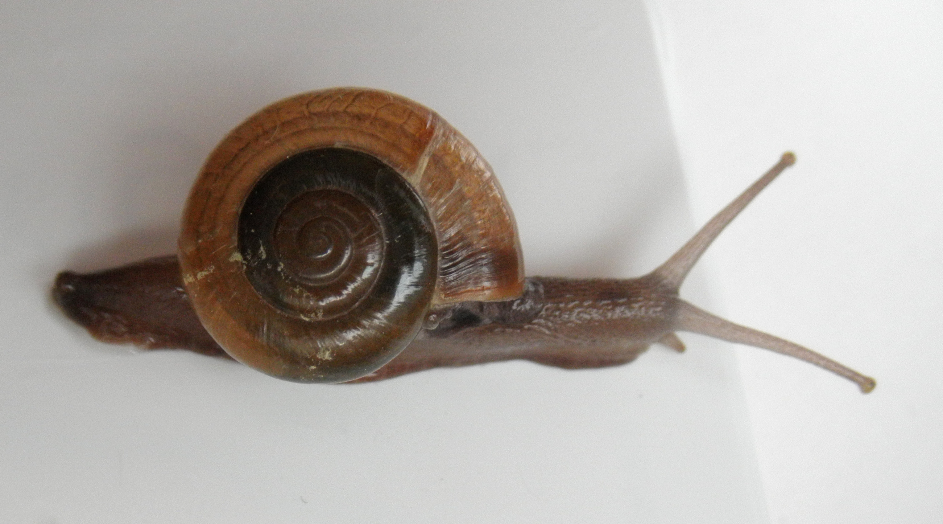 Photo of a dorsal view of a live Macrochlamys amboinensis.